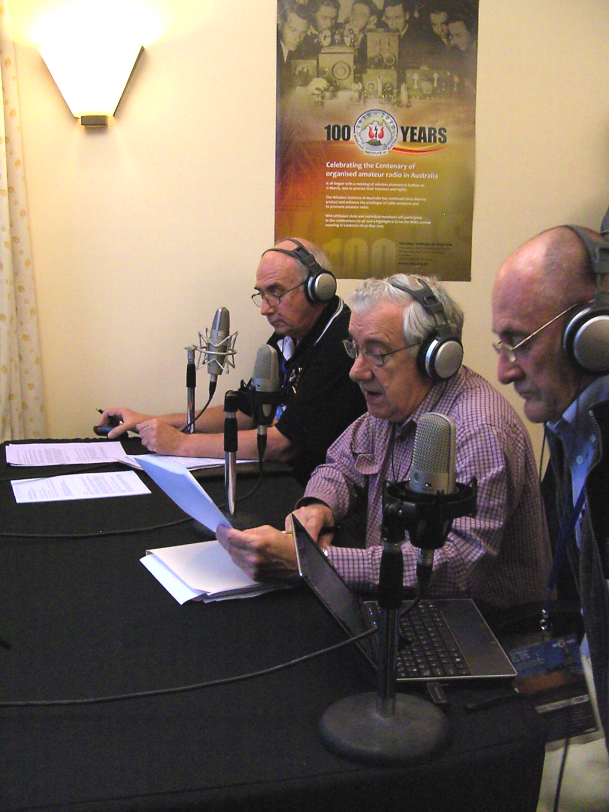 Live broadcast on 30 May 2010 of weekly broadcast of Amateur Radio news in Australia, using the special event callsign VK100WIA commemorating the 100th anniversary of the Wireless Institute of Australia. L-R: Graham Kemp VK4BB (broadcast host), Michael Owens VK3KI (President of the WIA), Peter Young VK3MV (a WIA Director).